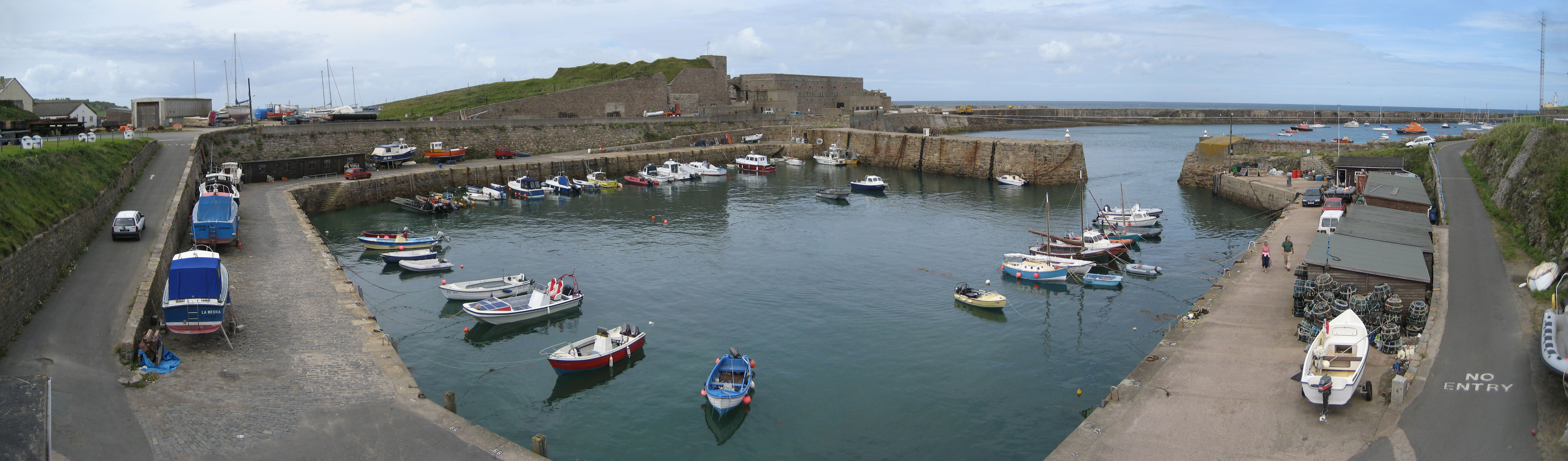 Inner Harbour (Crabby harbour) of Braye Harbour, Alderney